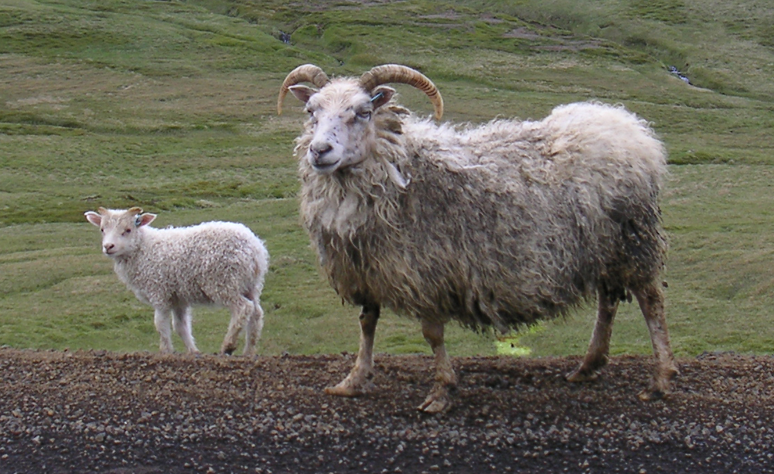 Icelandic sheep, lamb and ewe, taken in Iceland, June 2005.